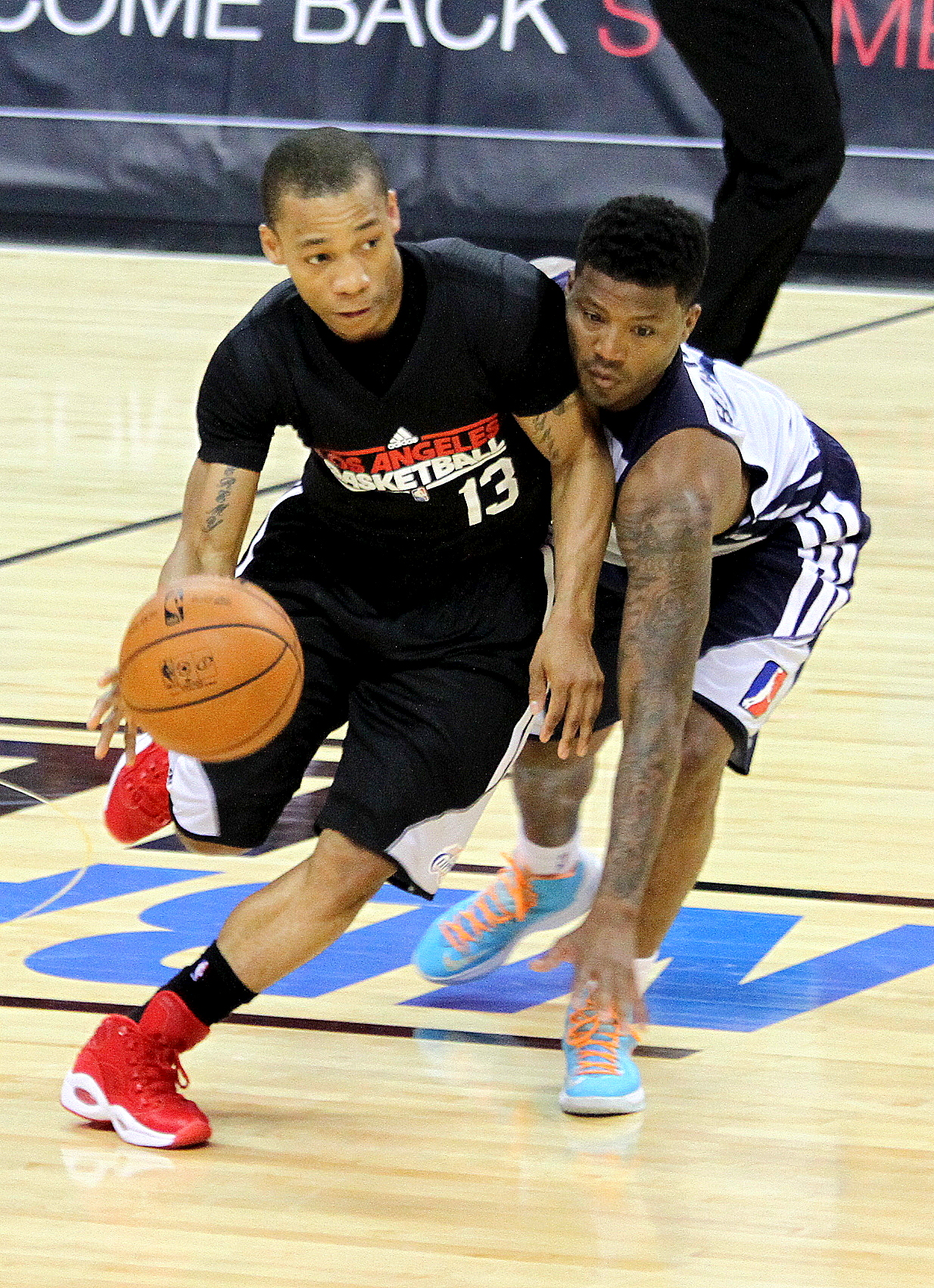 Jerome Randle of the Los Angeles Clippers being guarded by Stefhon Hannah of the NBA D-League Select Team